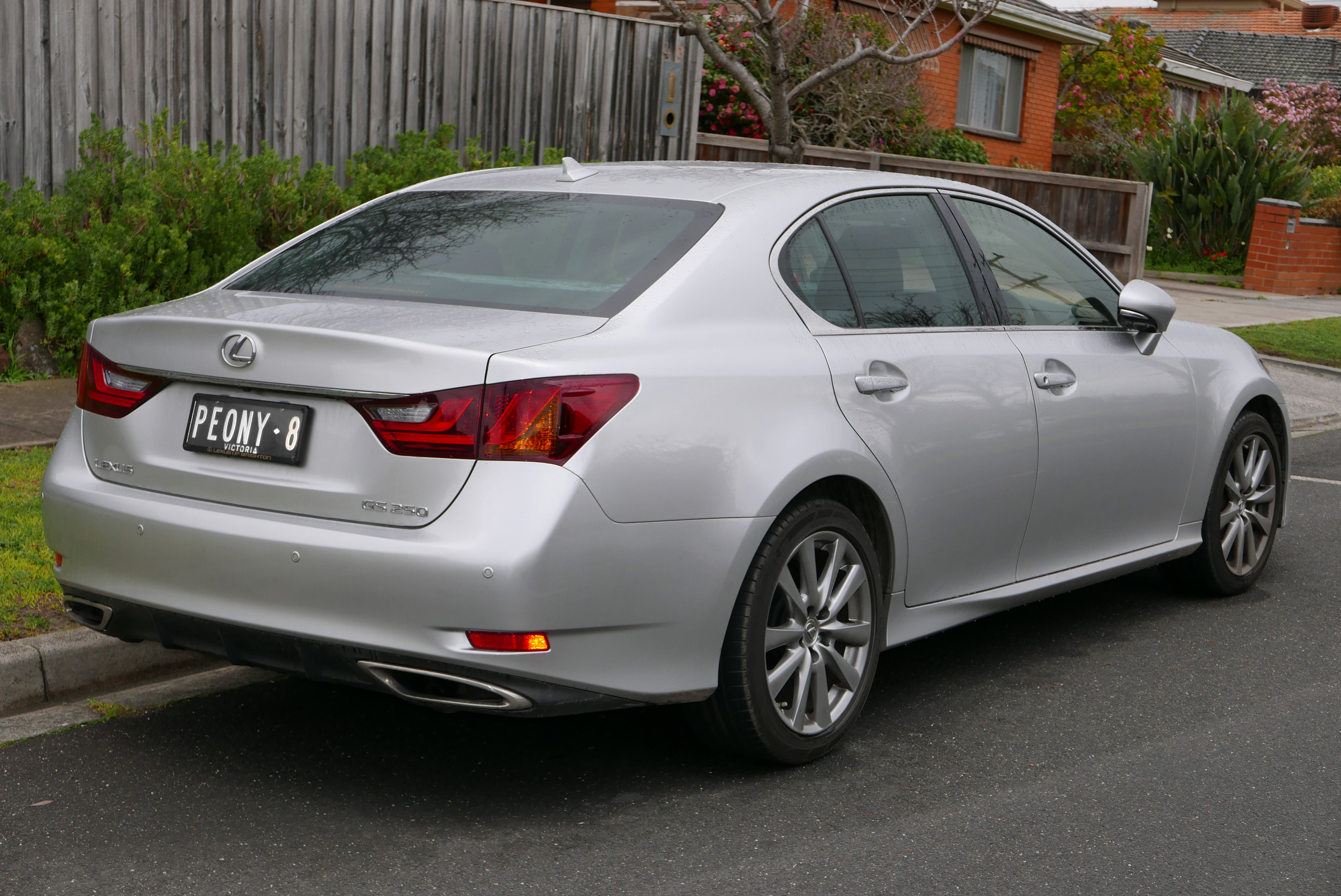 2012 Lexus GS 250 (GRL11R) Luxury sedan. Photographed in Doncaster, Victoria, Australia. Vehicle registration enquiry resultsJurisdictionVictoriaRegistrationPEONY8Chassis codeJTHBF1BL905007034Engine code4GR0860373Compliance date2012-10Year of manufacture2012